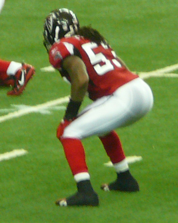 If used somewhere other than Wikipedia, Nelson, by name.